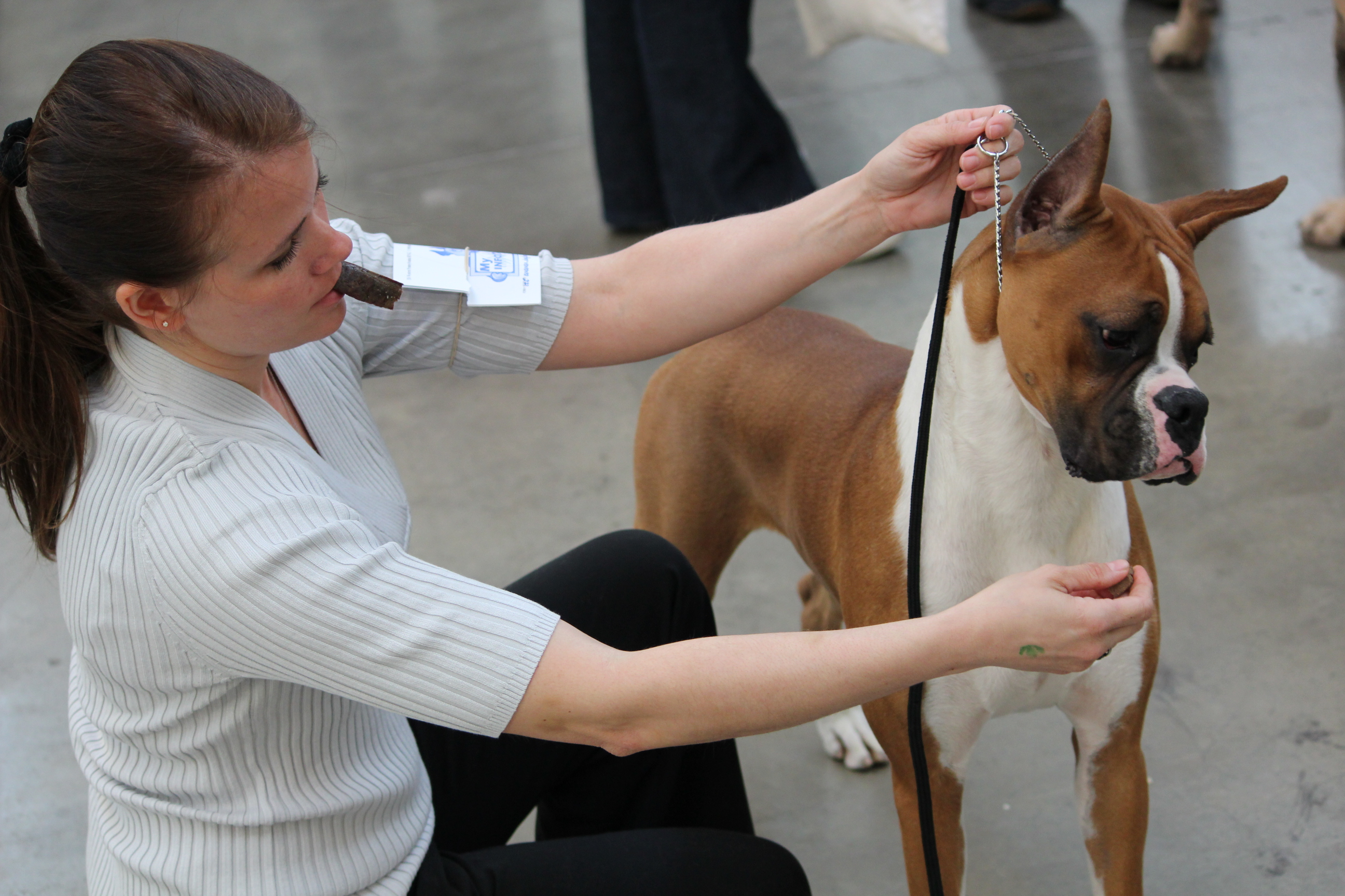 Boxer dog at 2010 PA Kennel Assoc. Dog Show